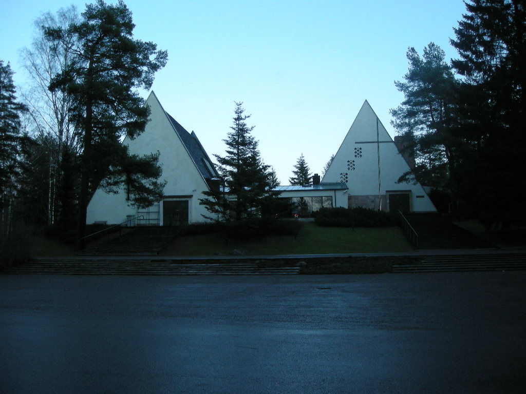 Chapel at the Honkanummi cemetery in Vantaa, Finland